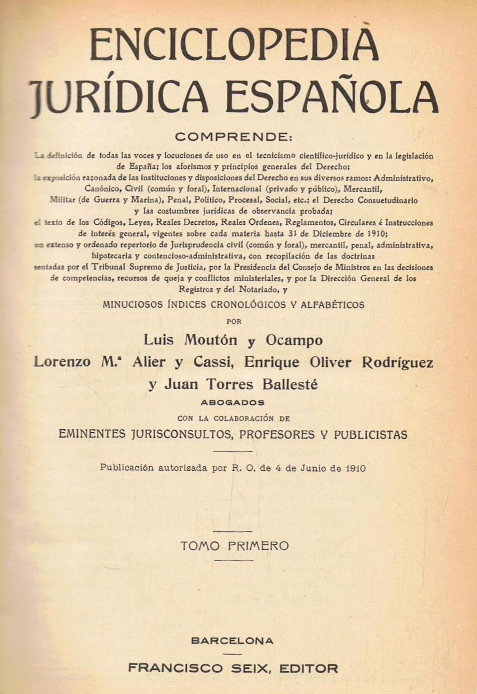 Enciclopedia Jurídica Española